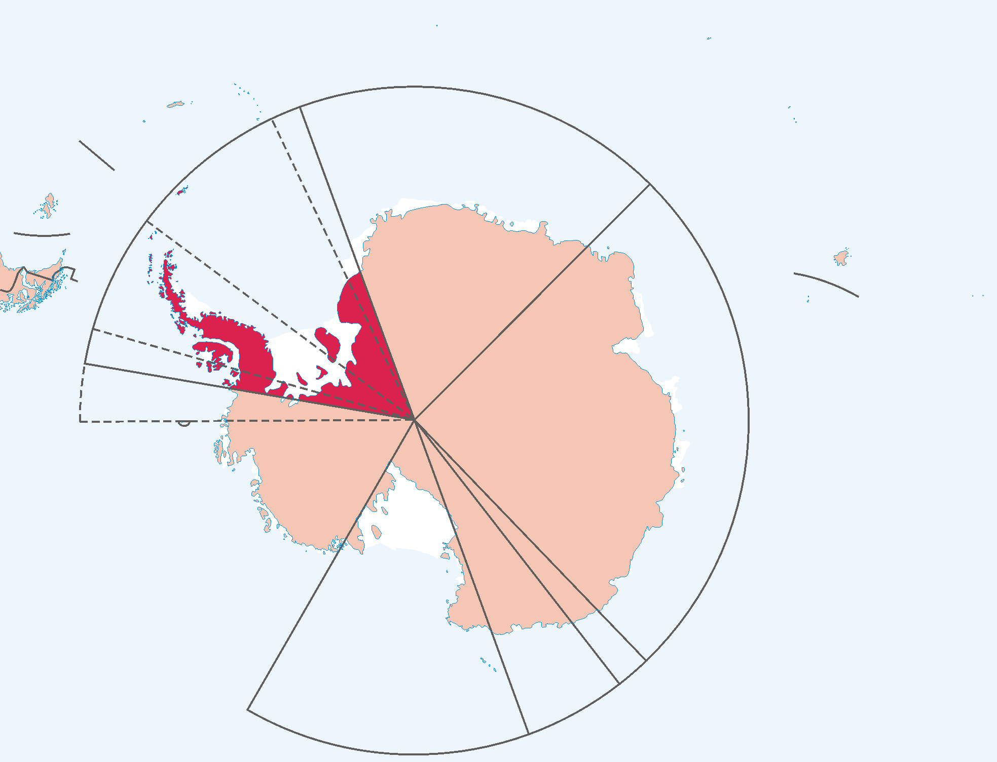 Map showing the portion of Antarctica claimed by the United Kingdom as British Antarctic Territory. It is situated in Antarctica from the South Pole to 60° S latitude between longitudes 20° W and 80° W.